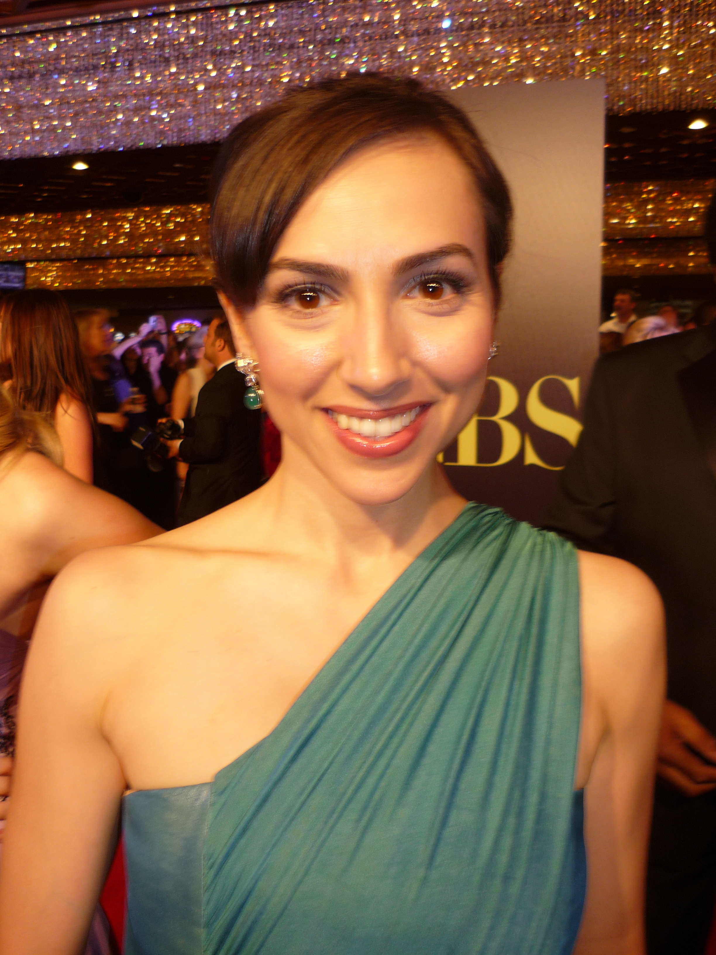 Actress Eden Riegel at 2010 Daytime Emmy Awards.